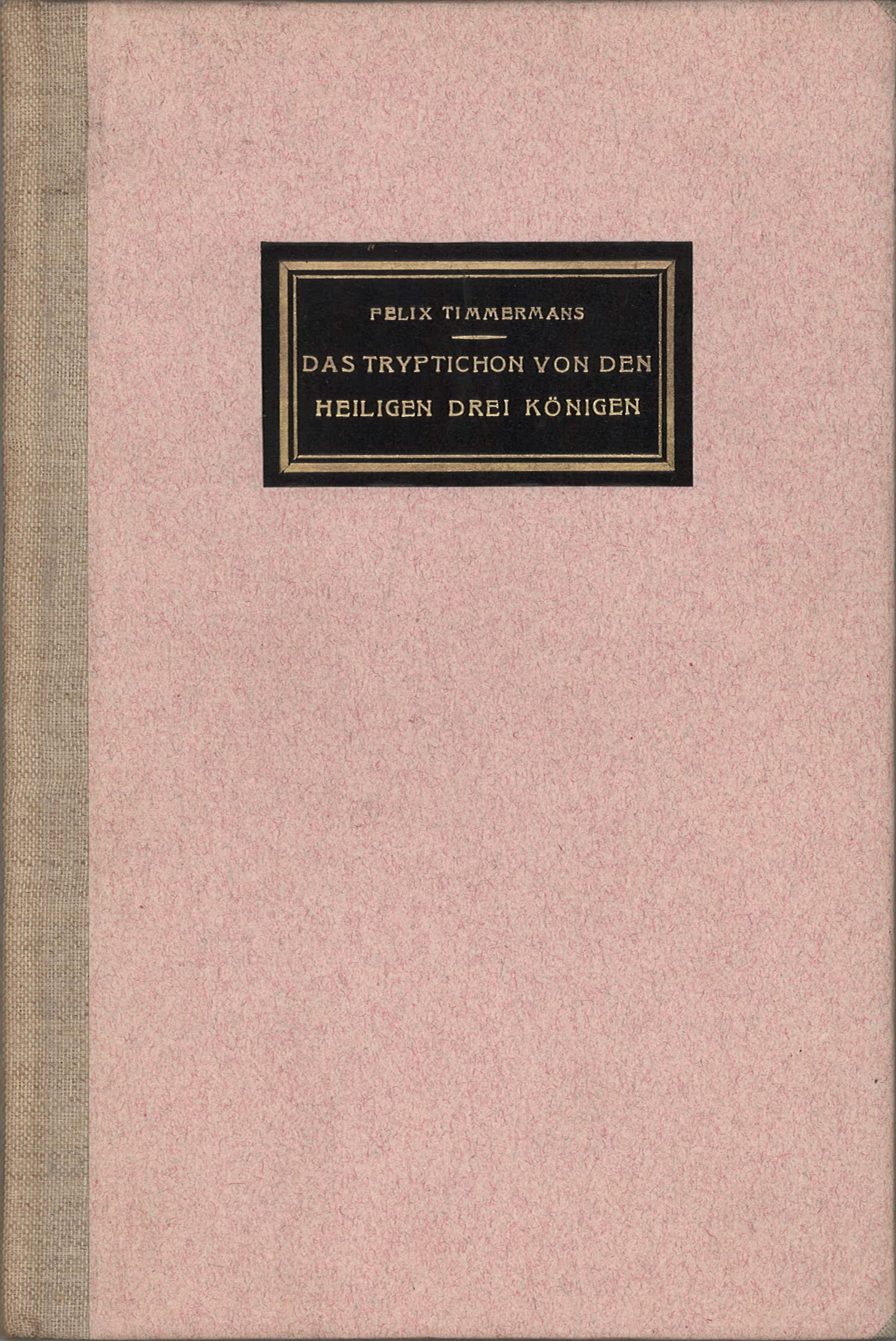 Half linen cover of IB 362 Timmermans Triptychon, special edition of 1923